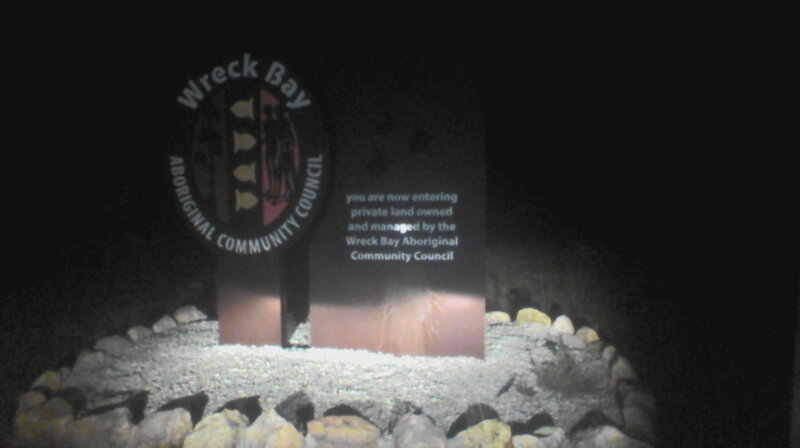 The entrance sign to Wreck Bay Village, Jervis Bay Territory. The sign reads: Wreck Bay Aboriginal Community Council you are now entering private land owned and managed by the Wreck Bay Aboriginal Community Council